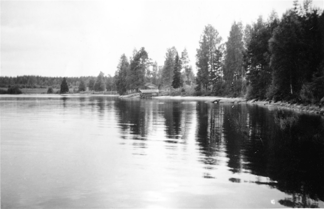 Mikonniemi beach